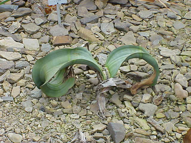 Species: Welwitschia mirabilis Family: Welwitschiaceae Image No. 2